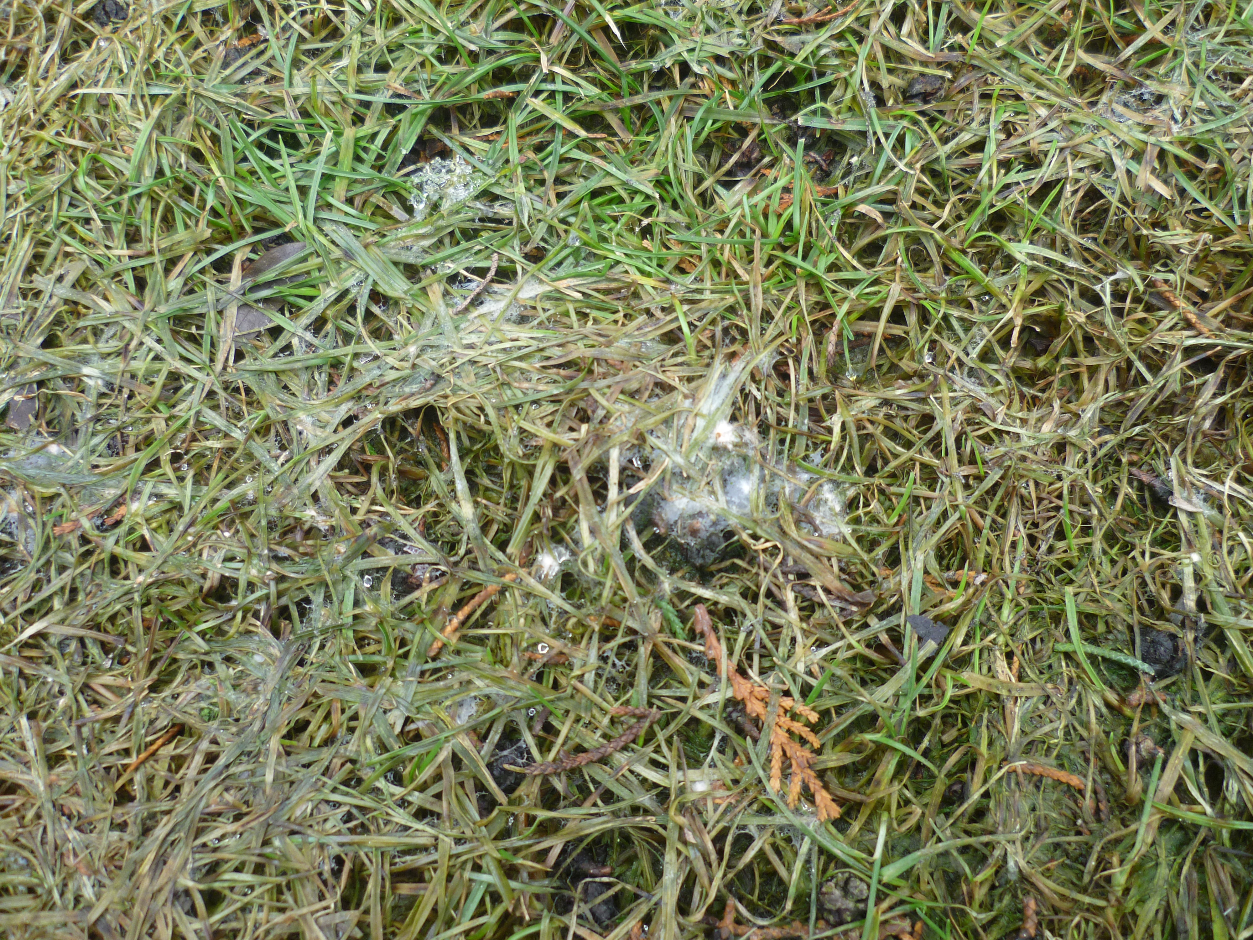 Snowy sky close-up